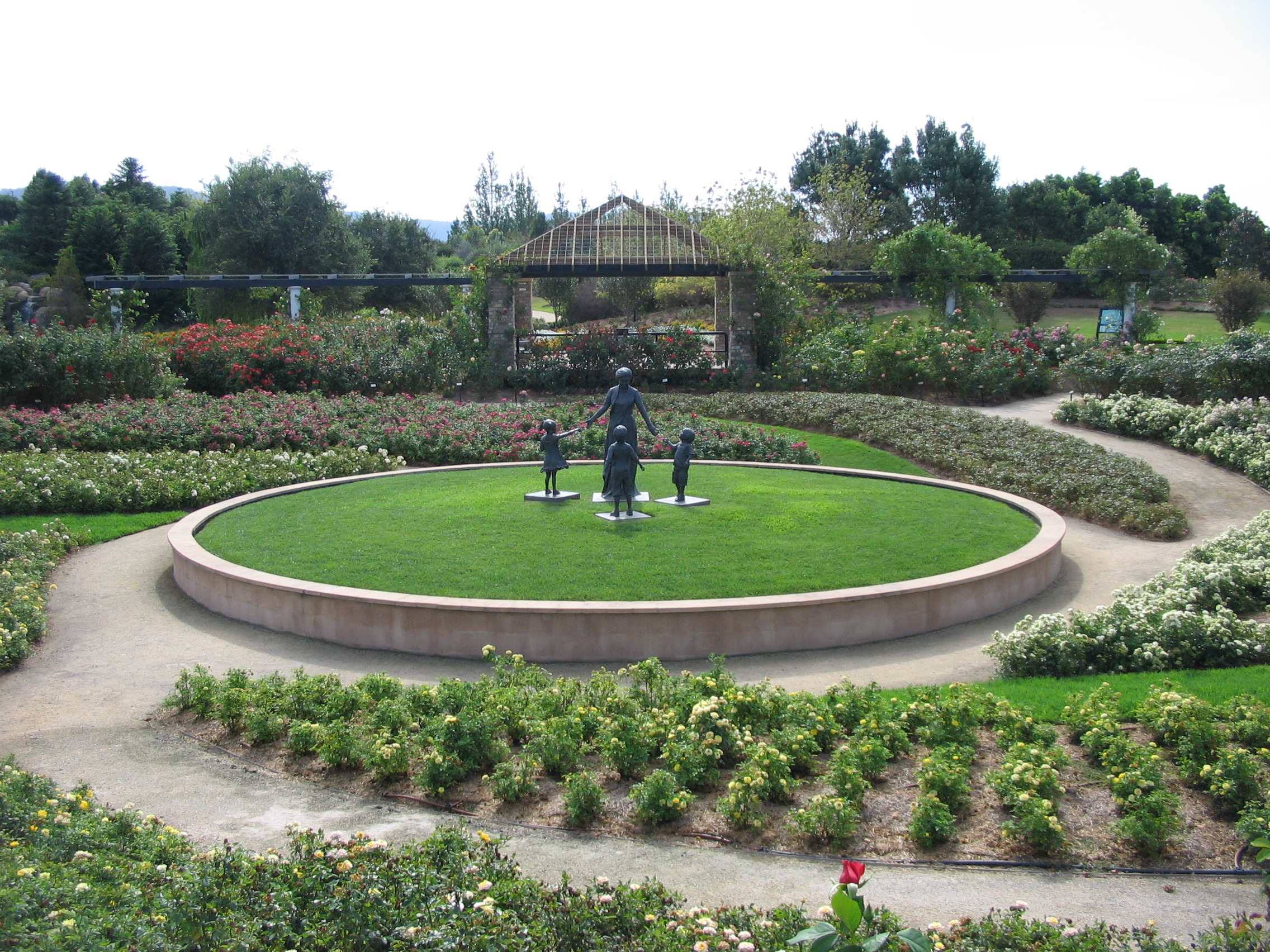 09. Ring a Ring o' Roses - Taken on the Saturday, 3rd February 2007 at 4:38pm taken facing west.